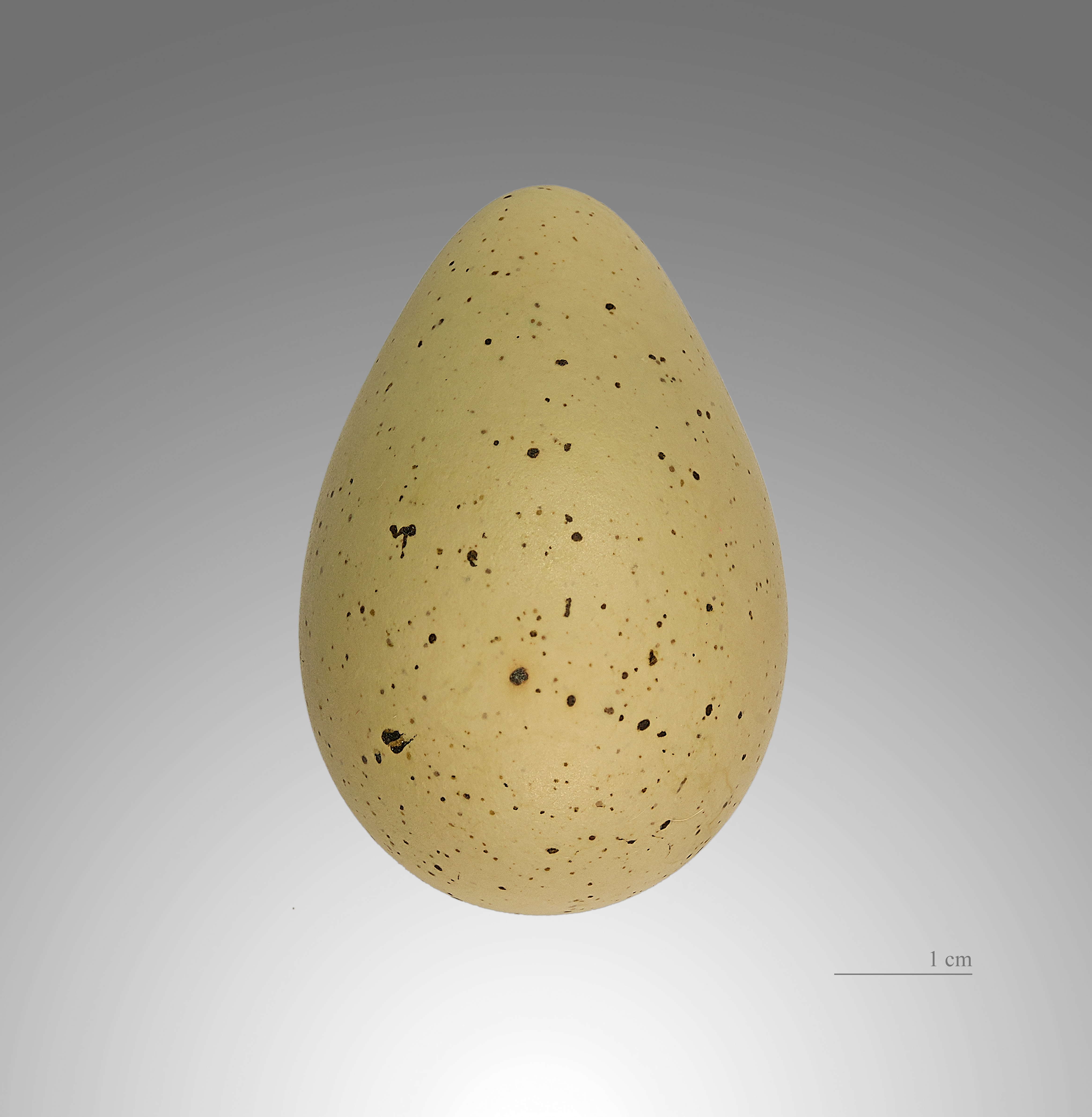 Egg of Pied Avocet. Collection of Jacques Perrin de Brichambaut